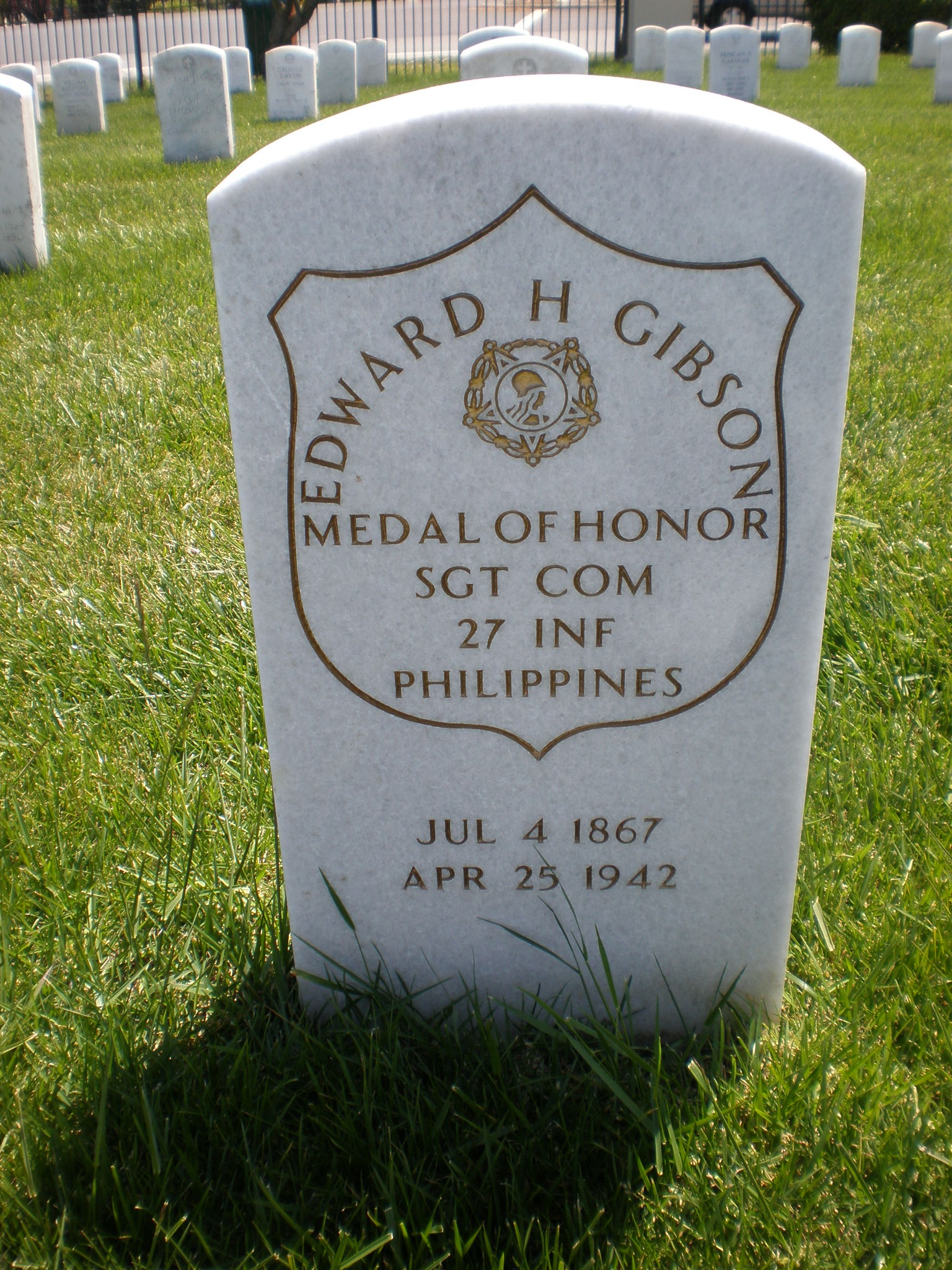 The front of the headstone of Sgt. Edward H. Gibson, Medal of Honor recipient, in Section L of Golden Gate National Cemetery in San Bruno, California.